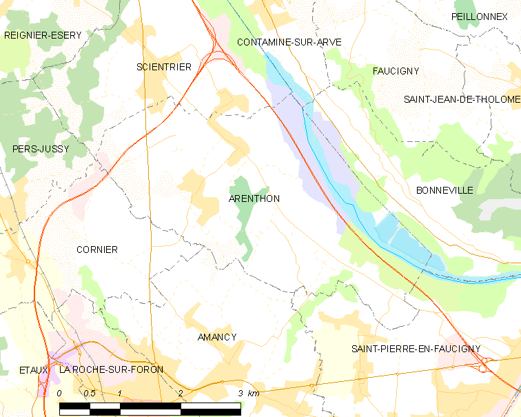 Map of French municipality Arenthon